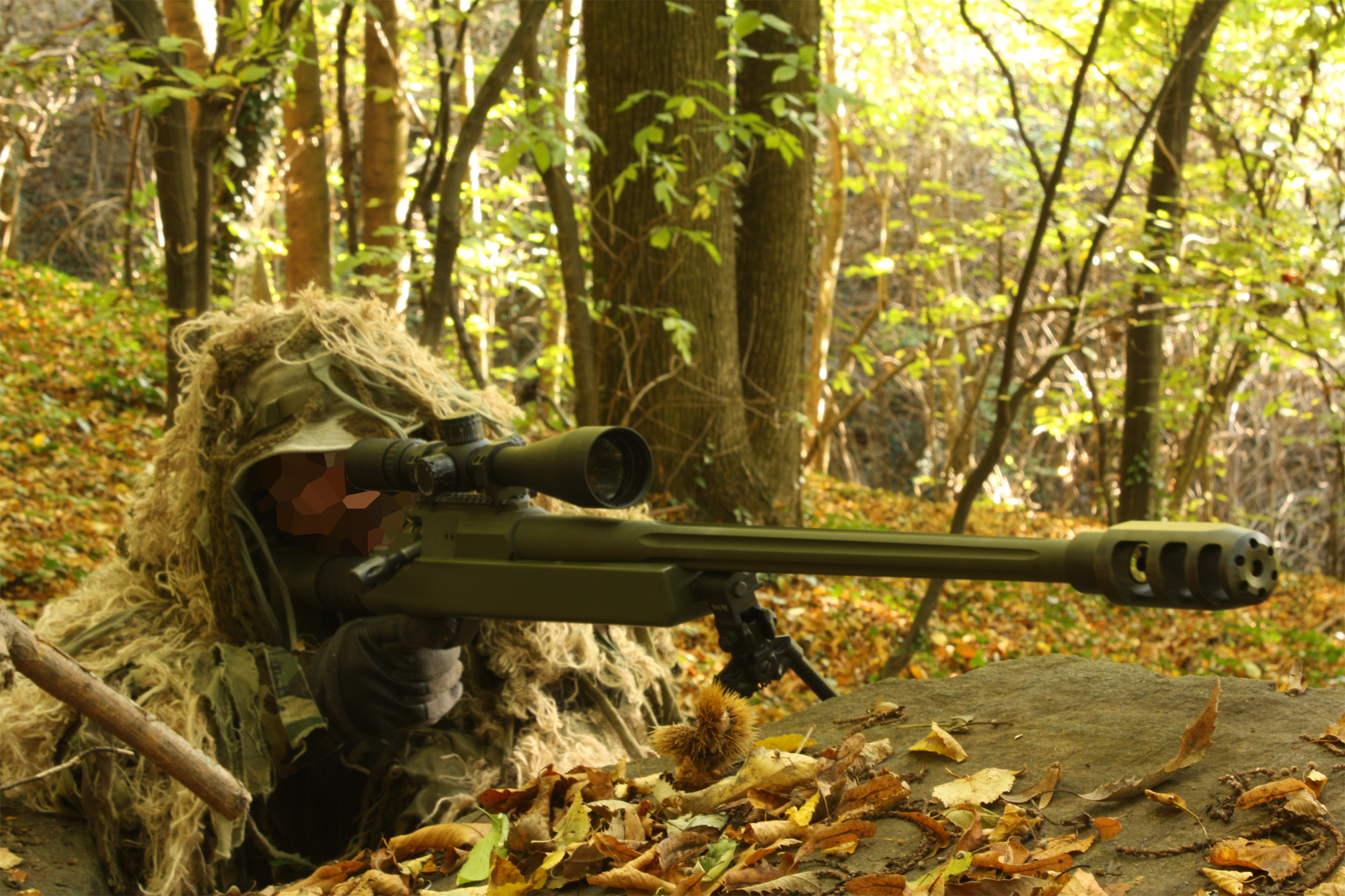 Foto ambientata Extreme STD